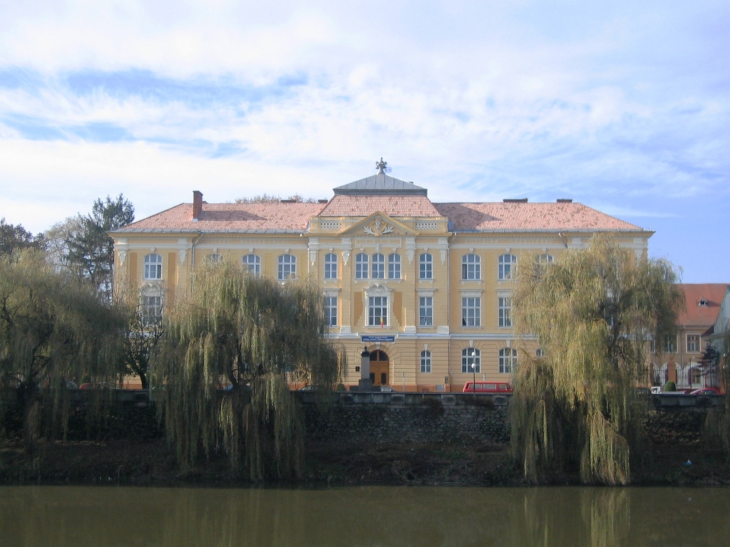 The "Coriolan Brediceanu" National College, on the banks of Timis River, Lugoj, Romania